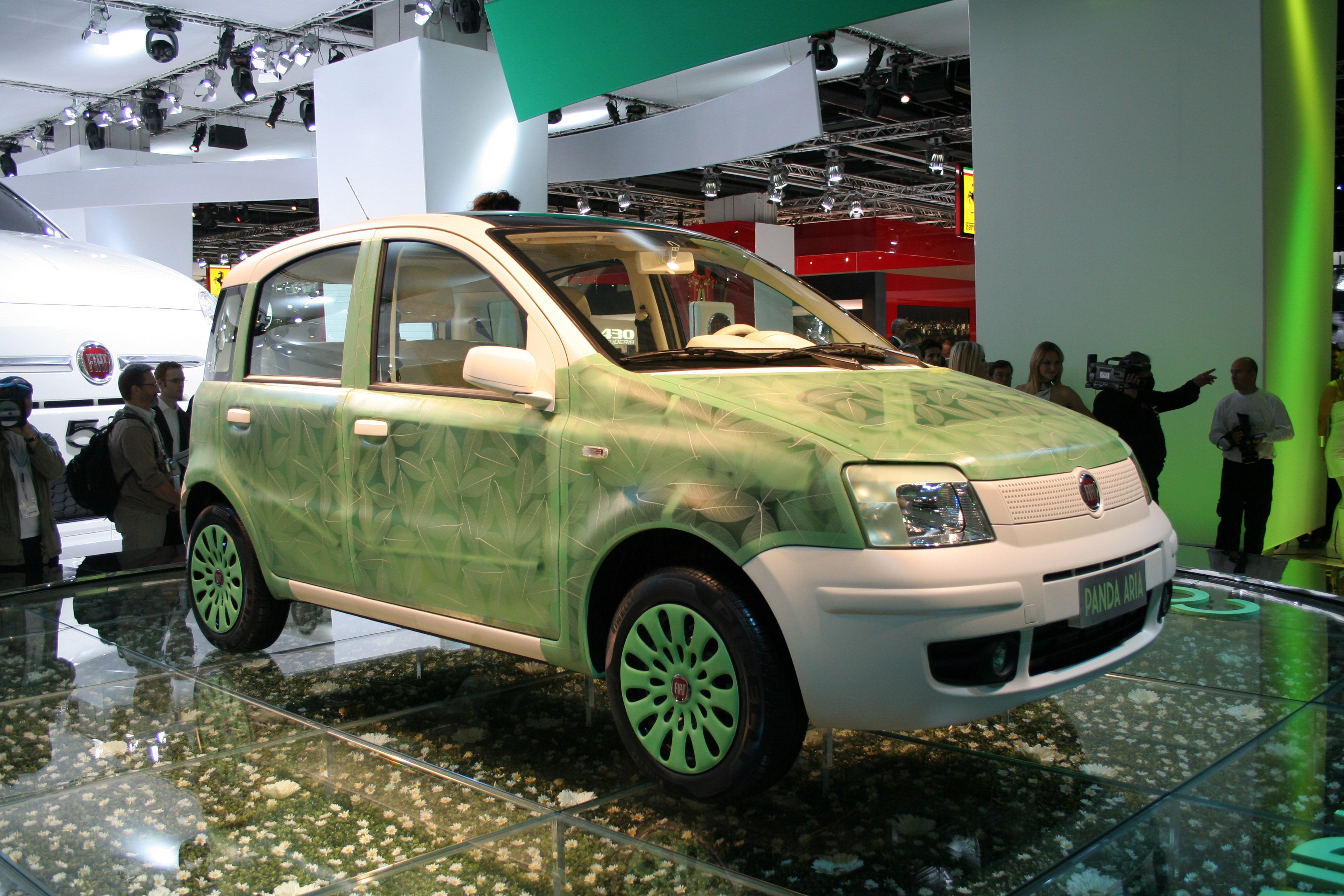 Image from IAA 2007 in Frankfurt am Main